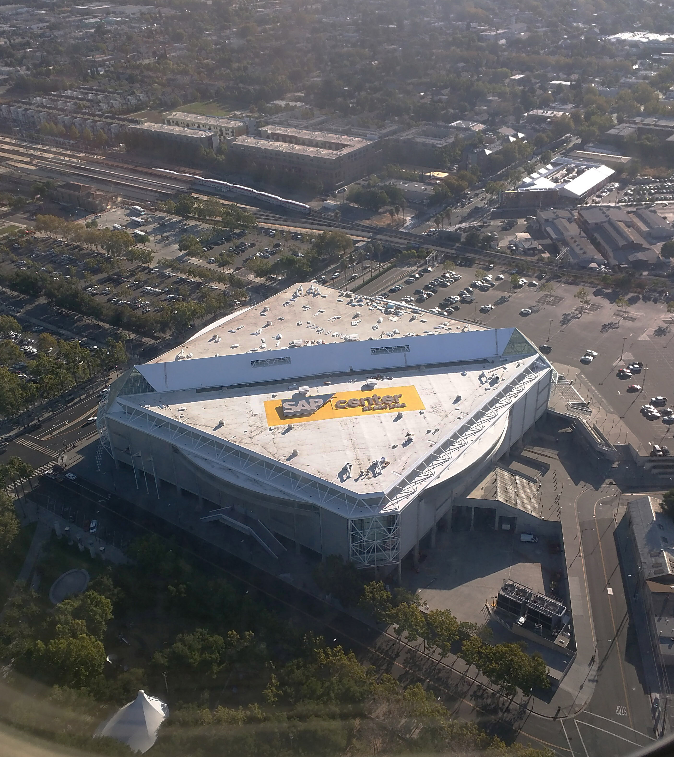 Aerial view of the SAP Center in San Jose, taken on landing at SJC in September 2015.